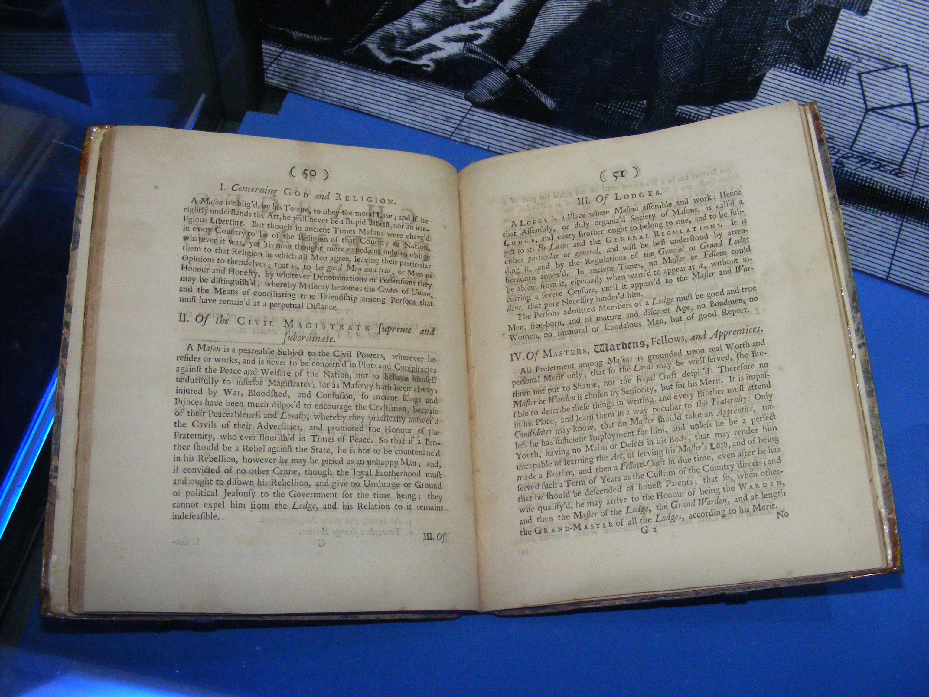 Bayreuth, Germany --- Charges of a Freemason Specs Total no. of files in this batch: 973 Batch data amount: 2.84 GB